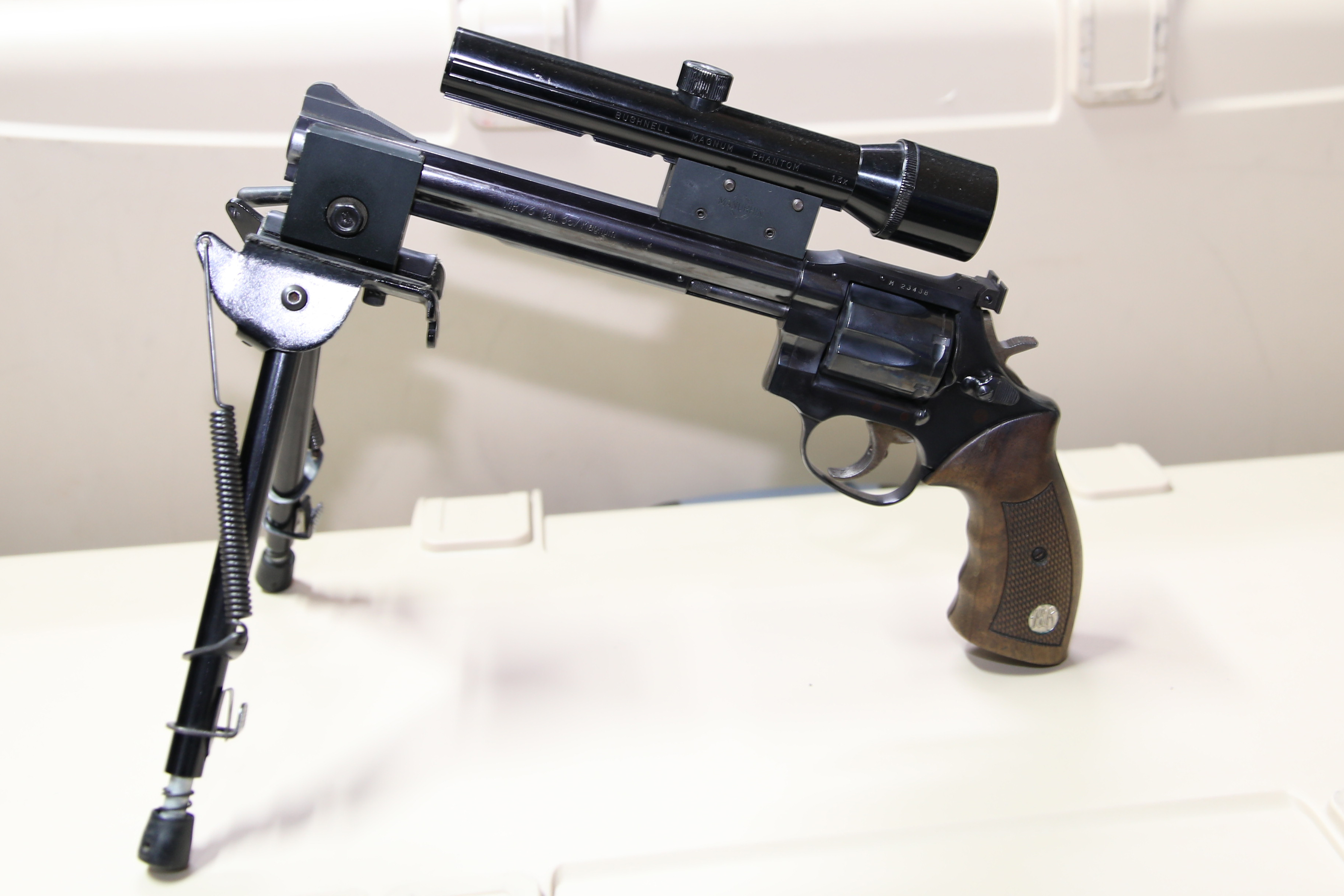 French Gendarmerie GIGN MR73 revolver with 8" barrel and Bushnell Magnum Phantom 1.5× telescopic sights